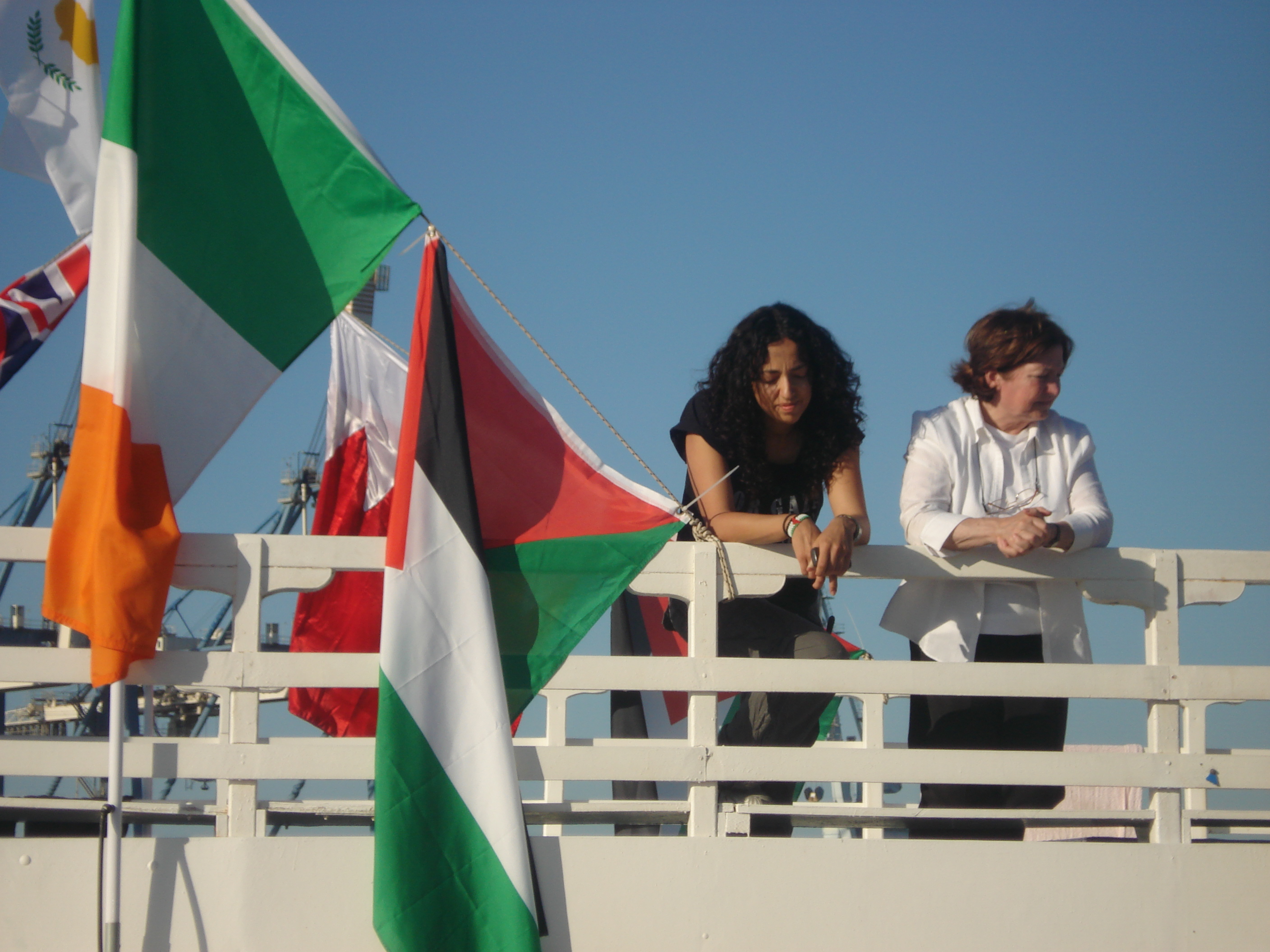 Huwaida Arraf and Mairead Maguire on the Free Gaza Movement's ship Spirit of Humanity on 28 June 2009, two days before the ship would be seized by the Israeli Navy 18 miles (29 km) off the Gaza coast.